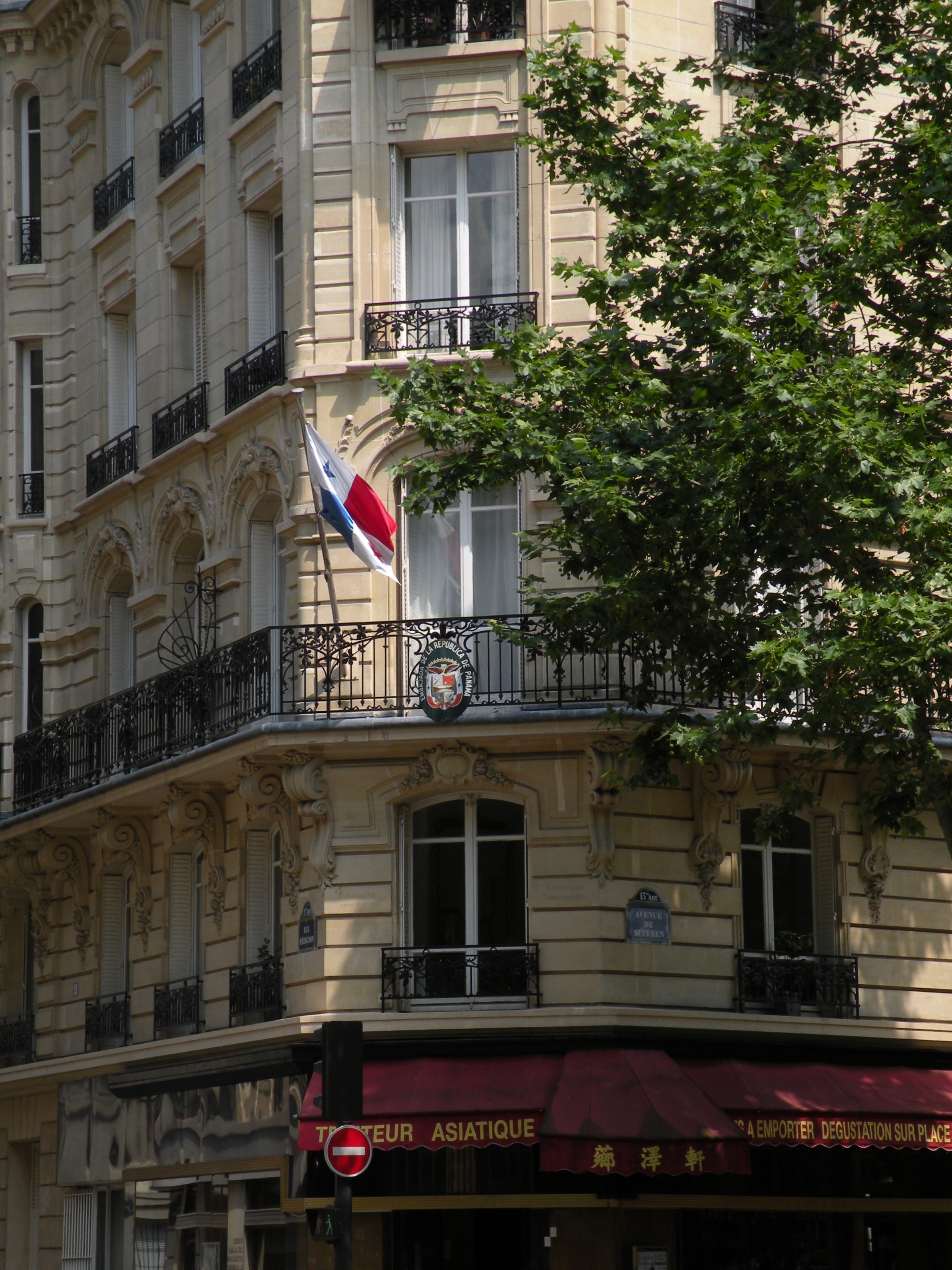 Panamanian embassy in France, Paris.